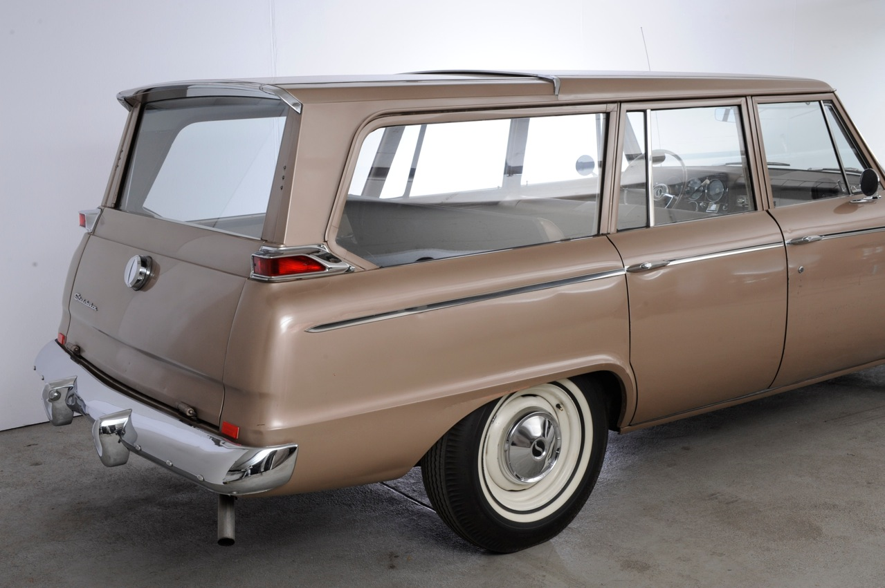 The Studebaker Lark Wagonaire (rear view)